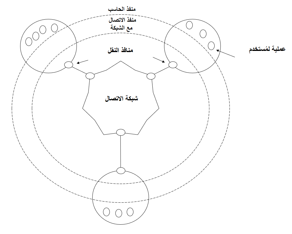 National Physical Laboratory (NPL) Network Model.